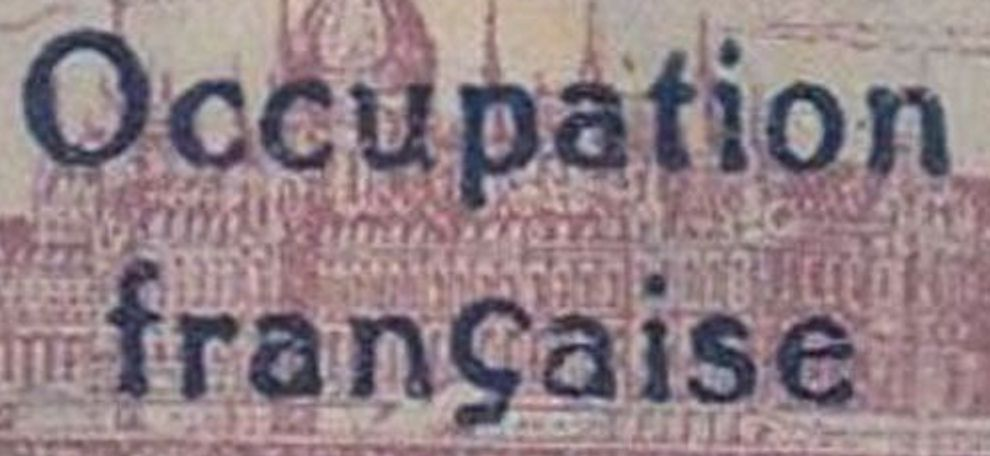 1919 Arad Occupation 2 part